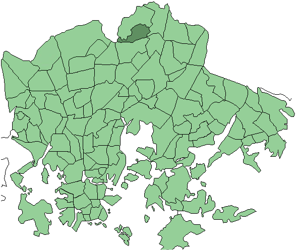 Districts of Helsinki, Töyrynummi highlighted